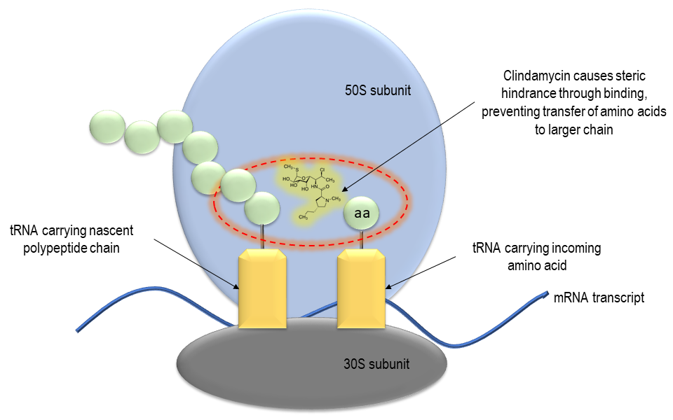 Illustration showing the mechanism by which Clindamycin inhibits bacterial protein production.